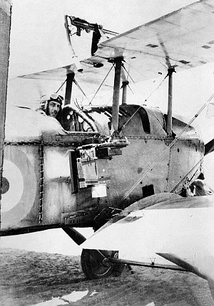 Middle East. 1917. Lieutenant A. T. Cole of the Australian Flying Corps (AFC) in a Martinsyde G.100 aircraft equipped for aerial photography with a Williamson aerial camera.